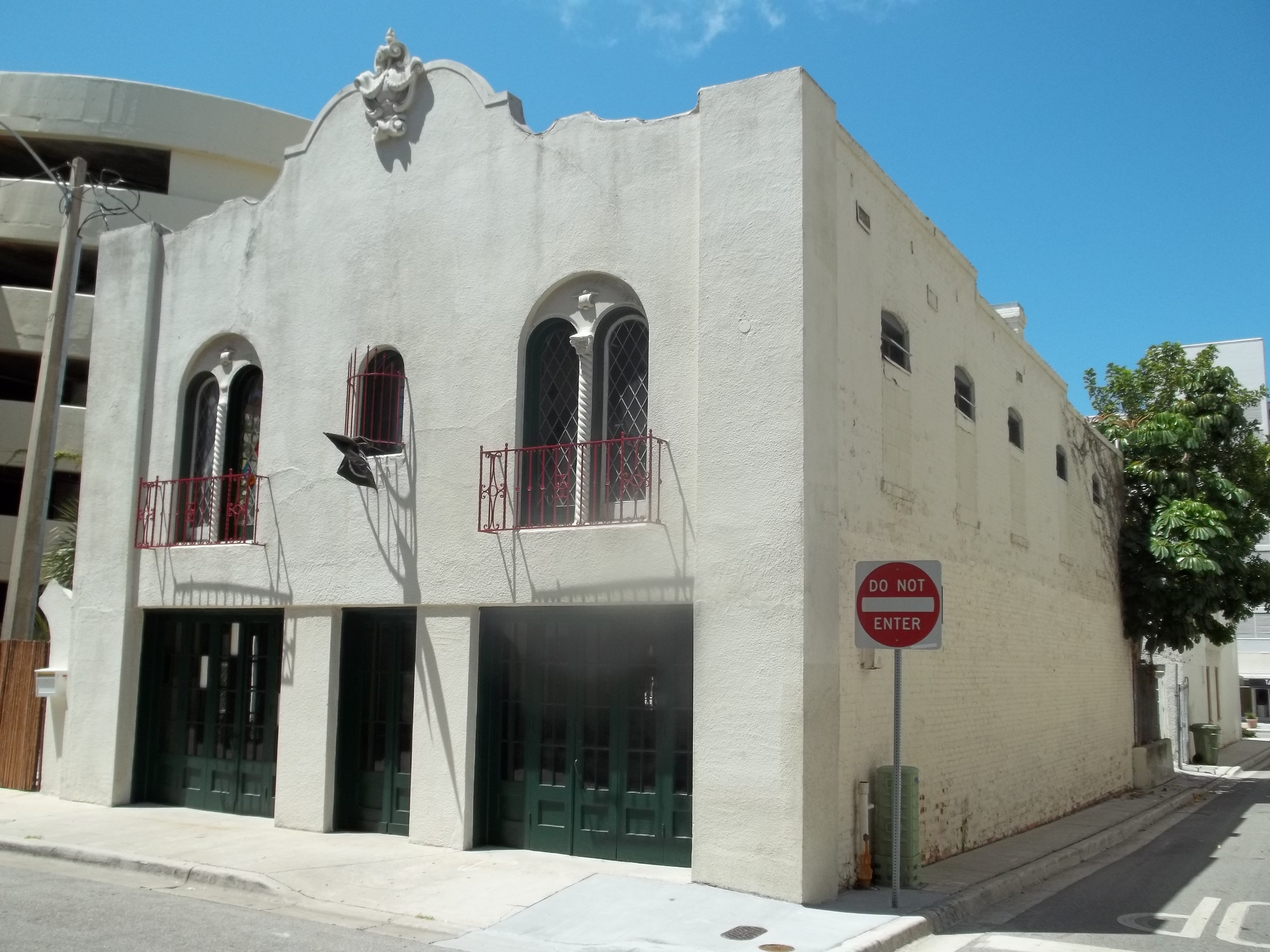 Sarasota, Florida: Downtown Sarasota Historic District: Roth Cigar Factory